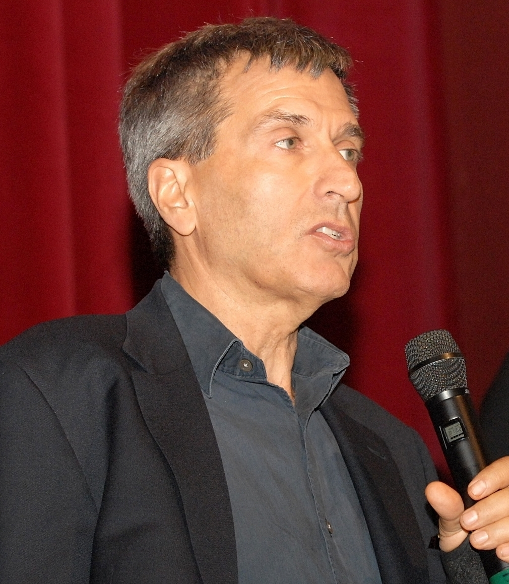 Nicholas Meyer, director of "Star Trek VI: The Undiscovered Country," answers questions from audience members before the showing of the film, part of the Air Force Film Festival, Los Angeles, at the Academy of Television Arts and Sciences, Nov. 14.